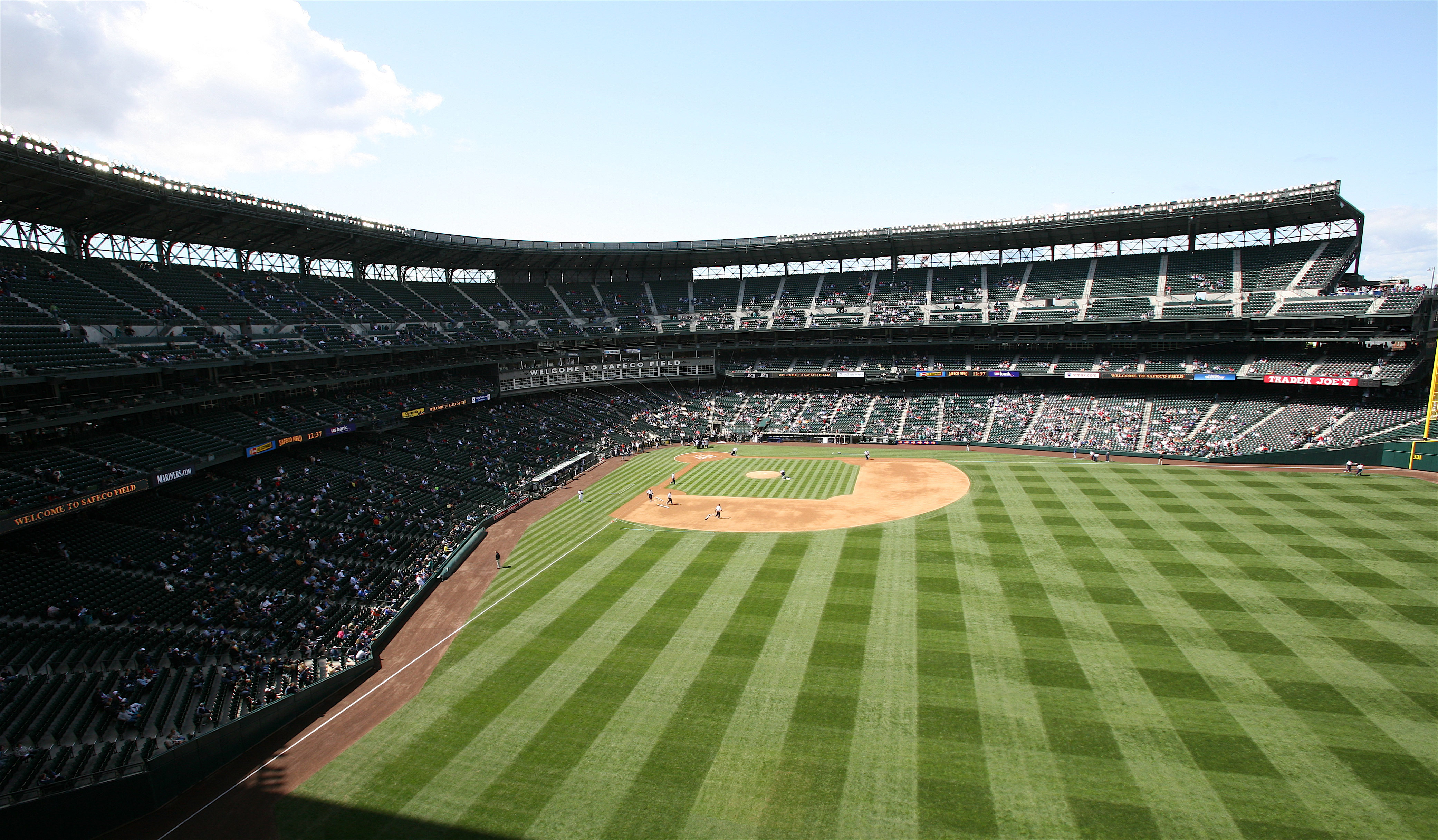 Safeco Field in Seattle, Washington.